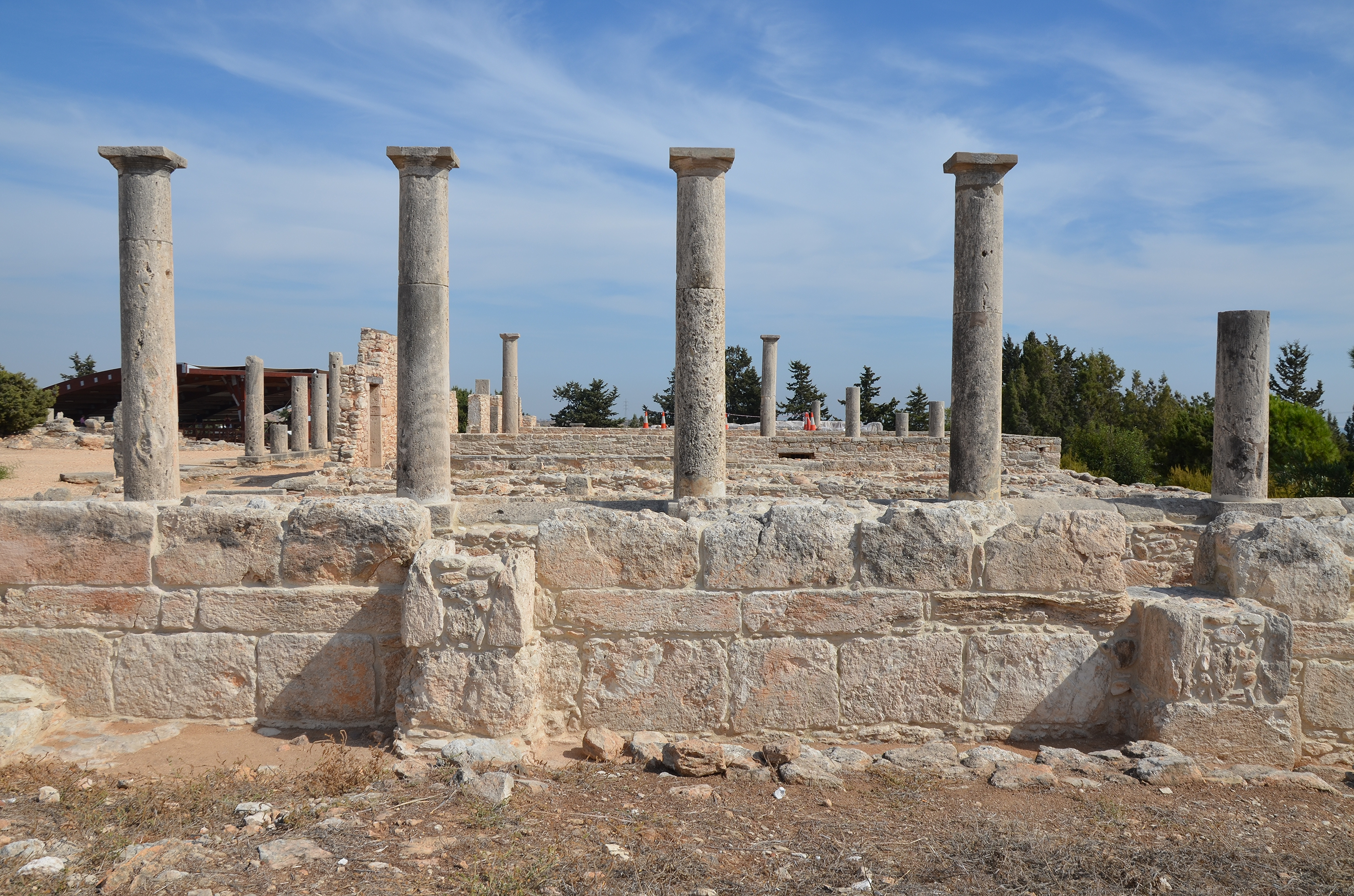 The Sanctuary and Temple of Apollo Hylates at Kourion, Cyprus